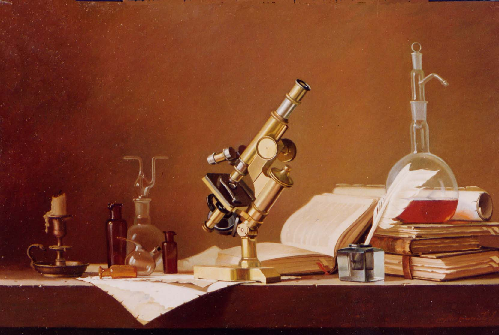 Бұл суретте эксперименттік физика көрсетілген